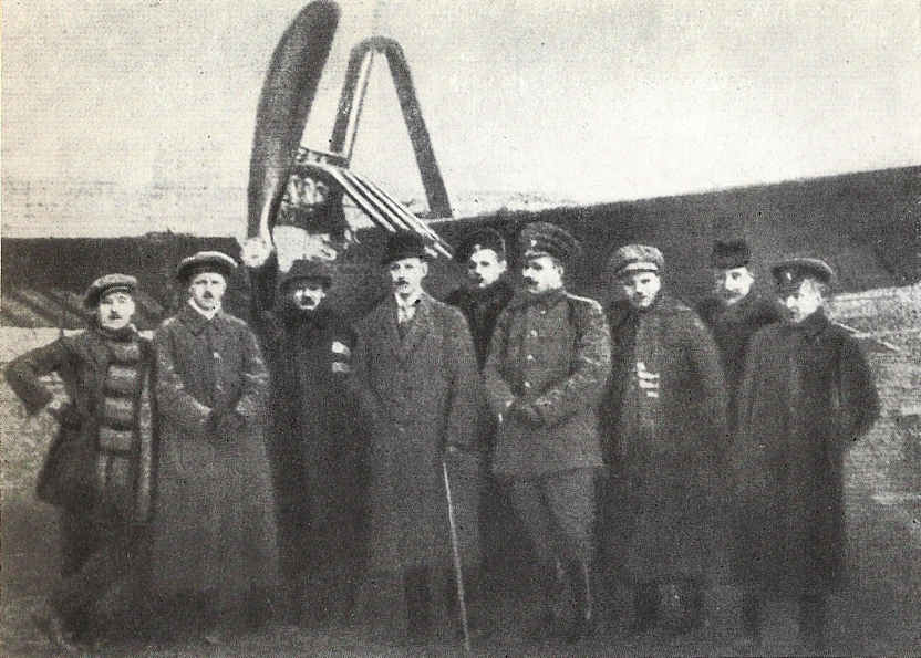 The famous Russian Aviator Slavorossov and Kamenskyi in 1912